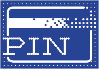 Logo of the former Dutch PIN debit card (1990-2012)